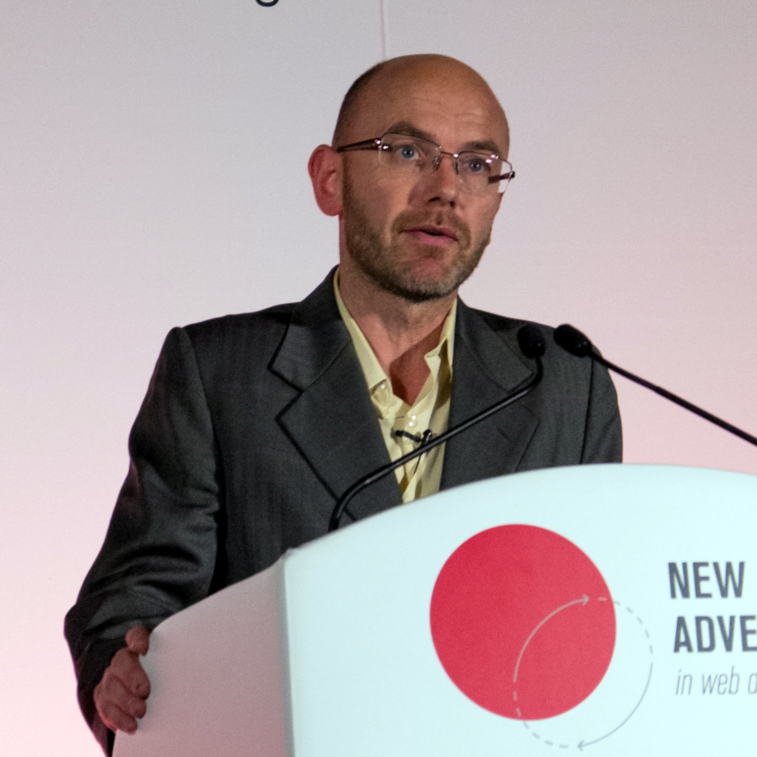 crop of Wayne Hemingway from photo at New Adventures in Web Design. Levels adjusted.